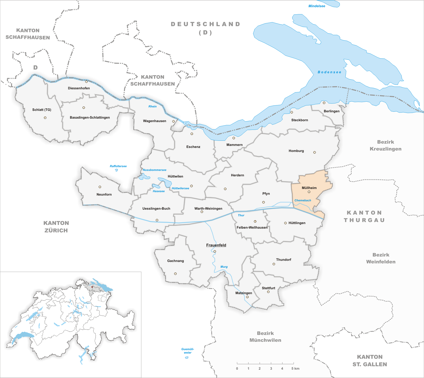 Municipality Müllheim